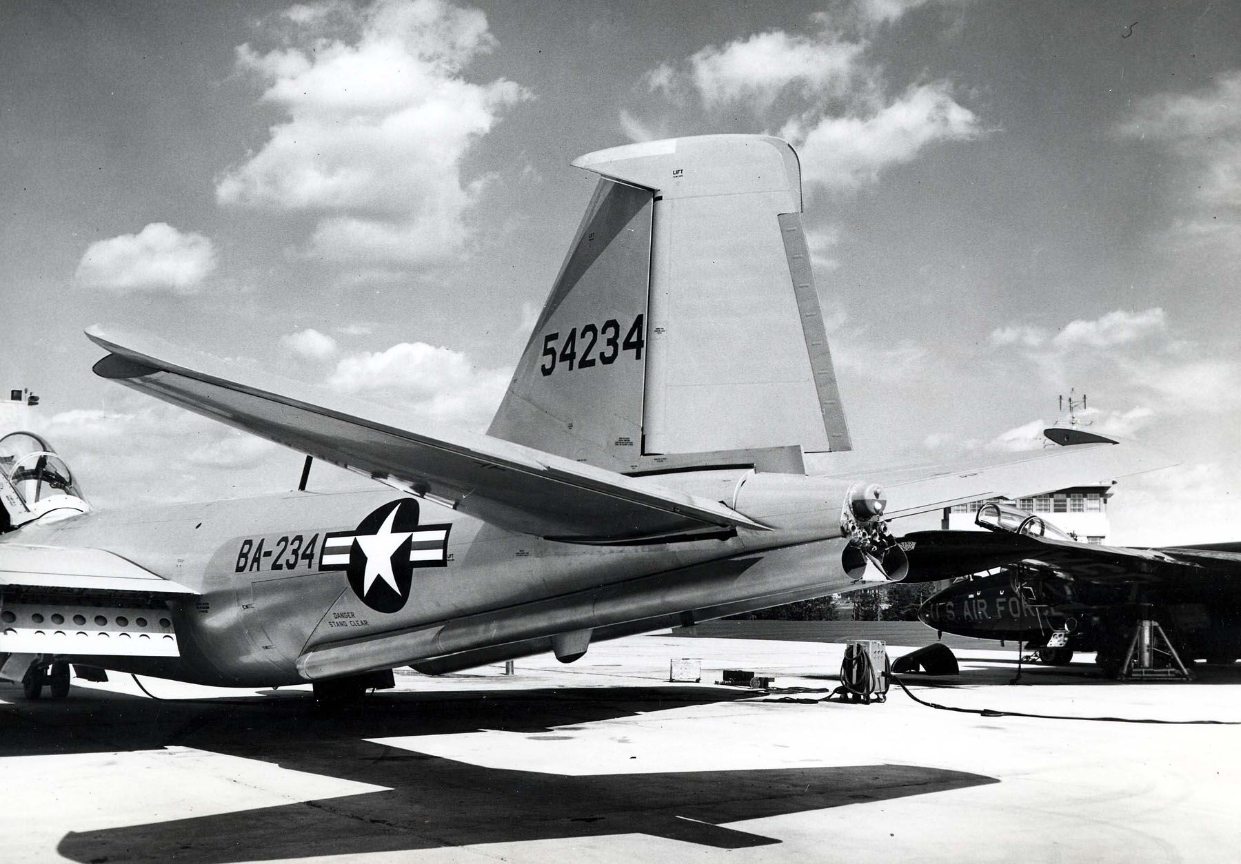 Tail view of Martin B-57E Canberra